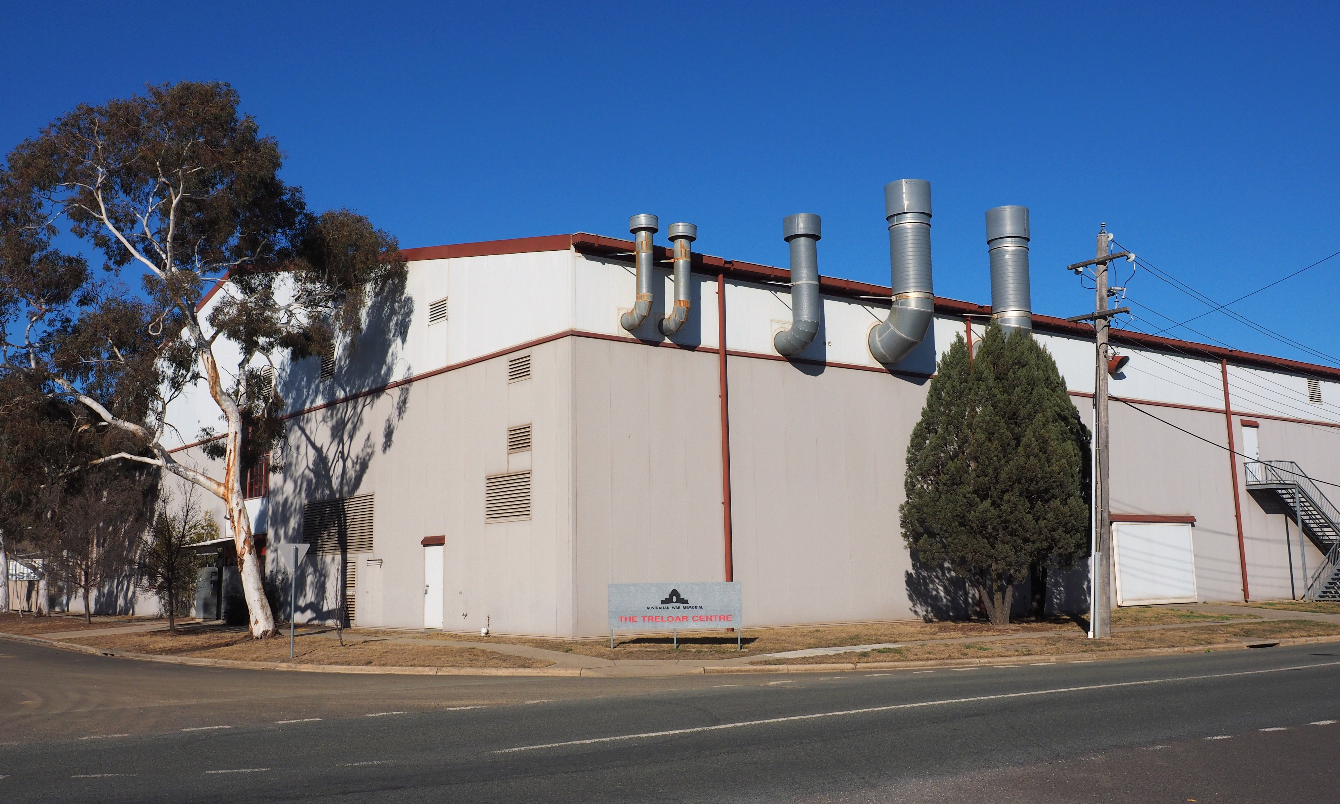 The exterior of the Treloar Resource Centre